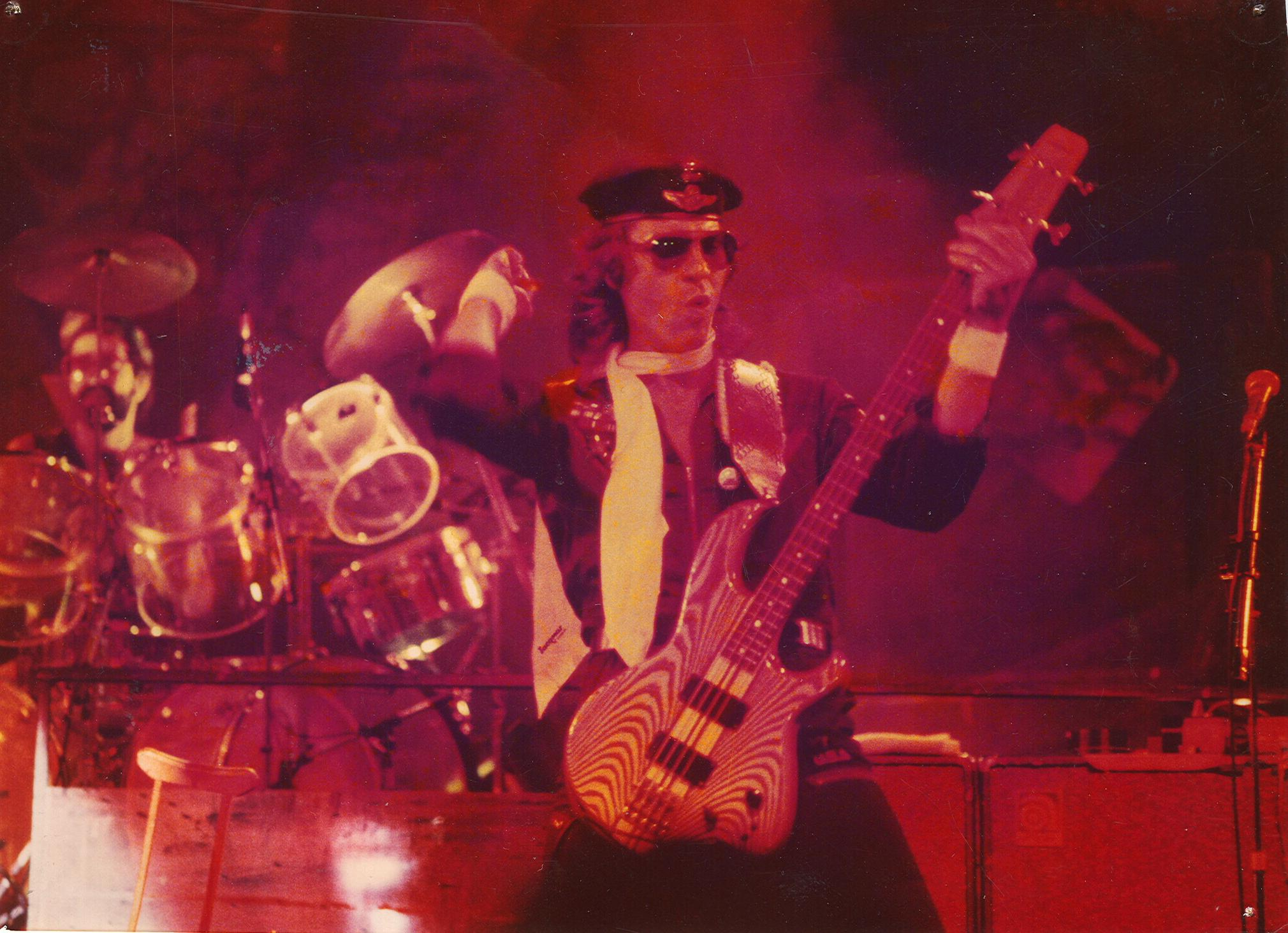 Email with photo release coming.